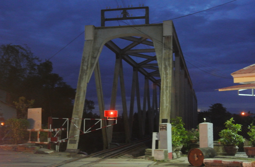 Level crossing at Vietnam QuiNhon